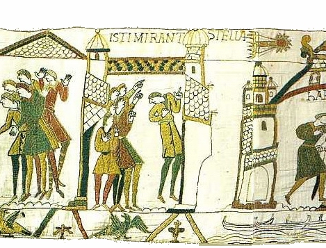 Bayeux Tapestry, Scene 32. Text reads ISTI MIRANT STELLA: "These (people) are looking in wonder at the star" (Halley's comet).